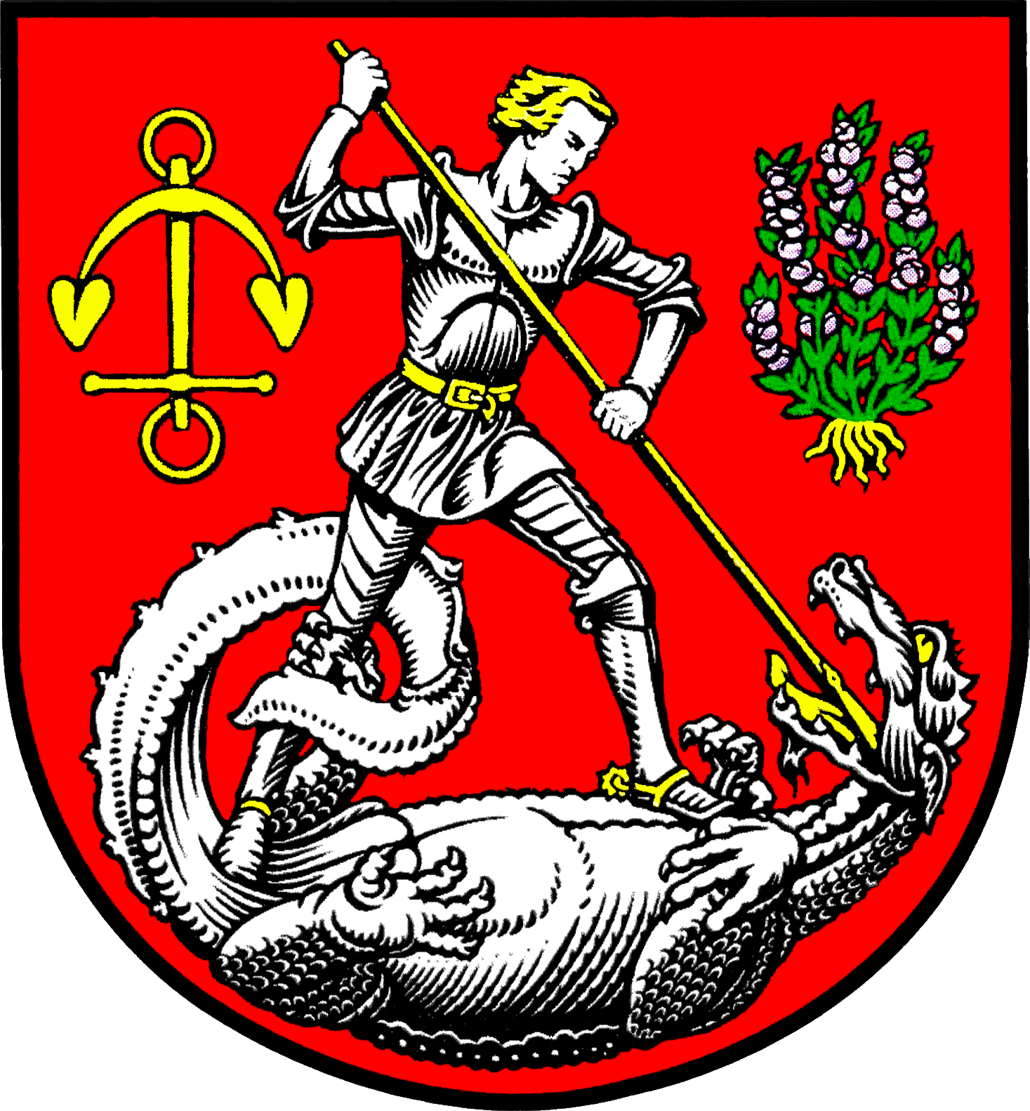 Coat of arms of Heide Blasonierung: In Rot der barhäuptige, silbern gerüstete Ritter St. Jürgen, der auf dem Leib eines auf dem Rücken liegenden silbernen Drachens steht und seinen Speer in den Rachen desselben stößt. Rechts wird der Ritter von einem aufgerichteten Anker und links von einem Heidebüschel begleitet. Das Haar, der Gürtel, die Sporen und der Speer des Ritters, die Augen des Drachens, der Anker und die Wurzeln des Heidebüschels sind golden, während das Heidebüschel selbst grün und dessen Blüten lila tingiert sind.